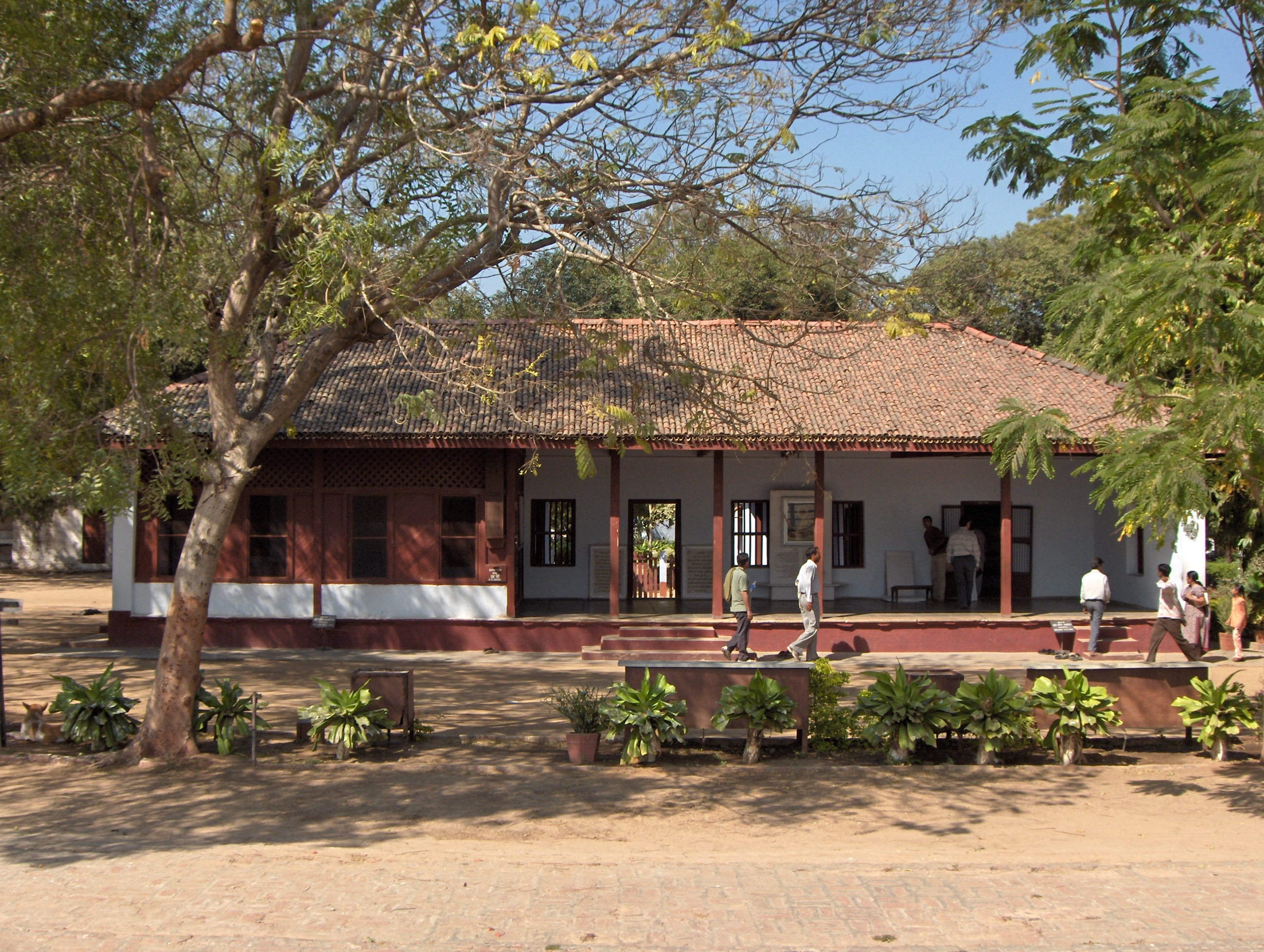 Front view of Mahatma Gandhi's house at Sabarmati Ashram in Ahmedabad, India Picture taken by me, Nichalp on 28-Jan-2006